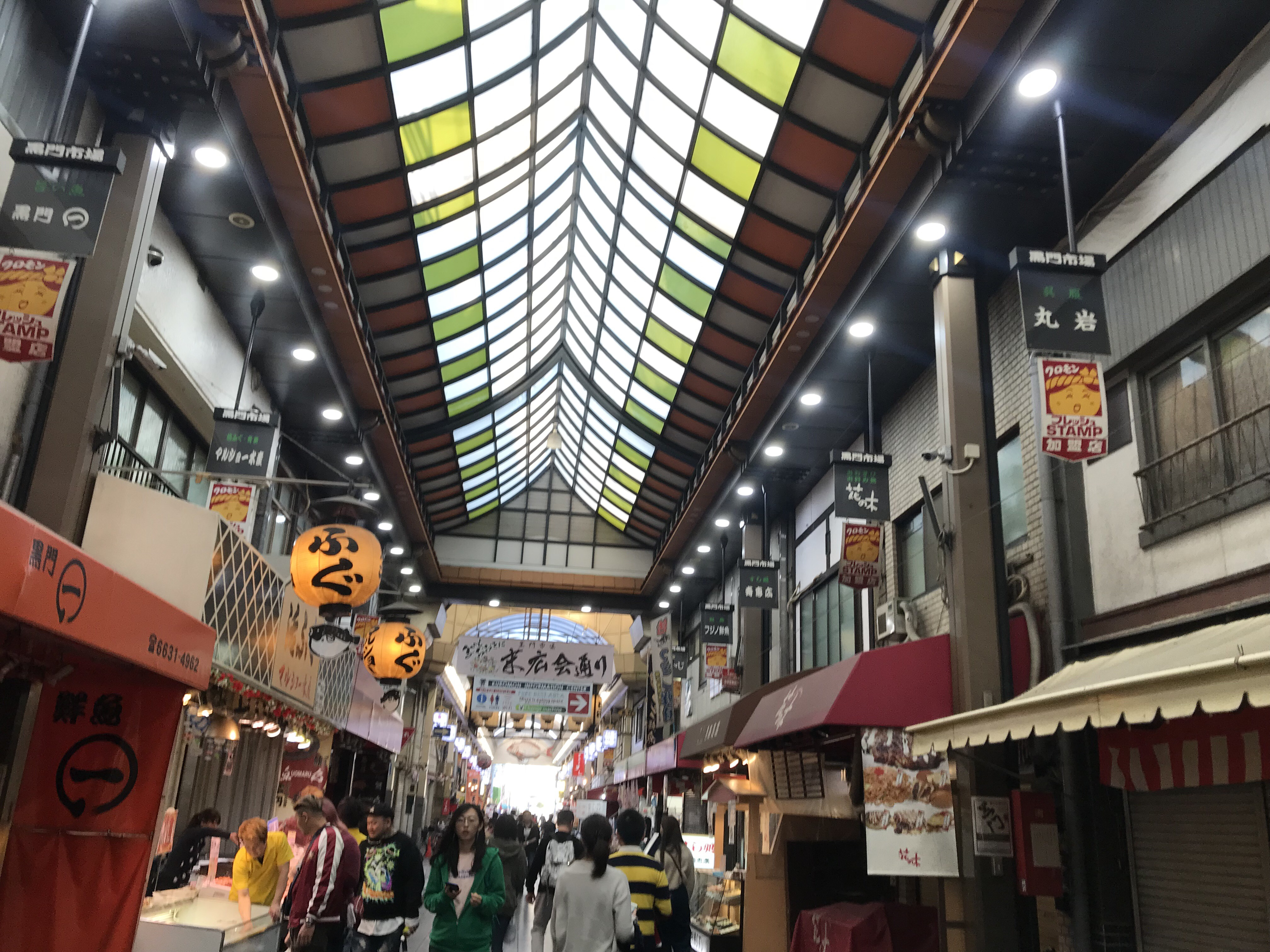 Osaka market